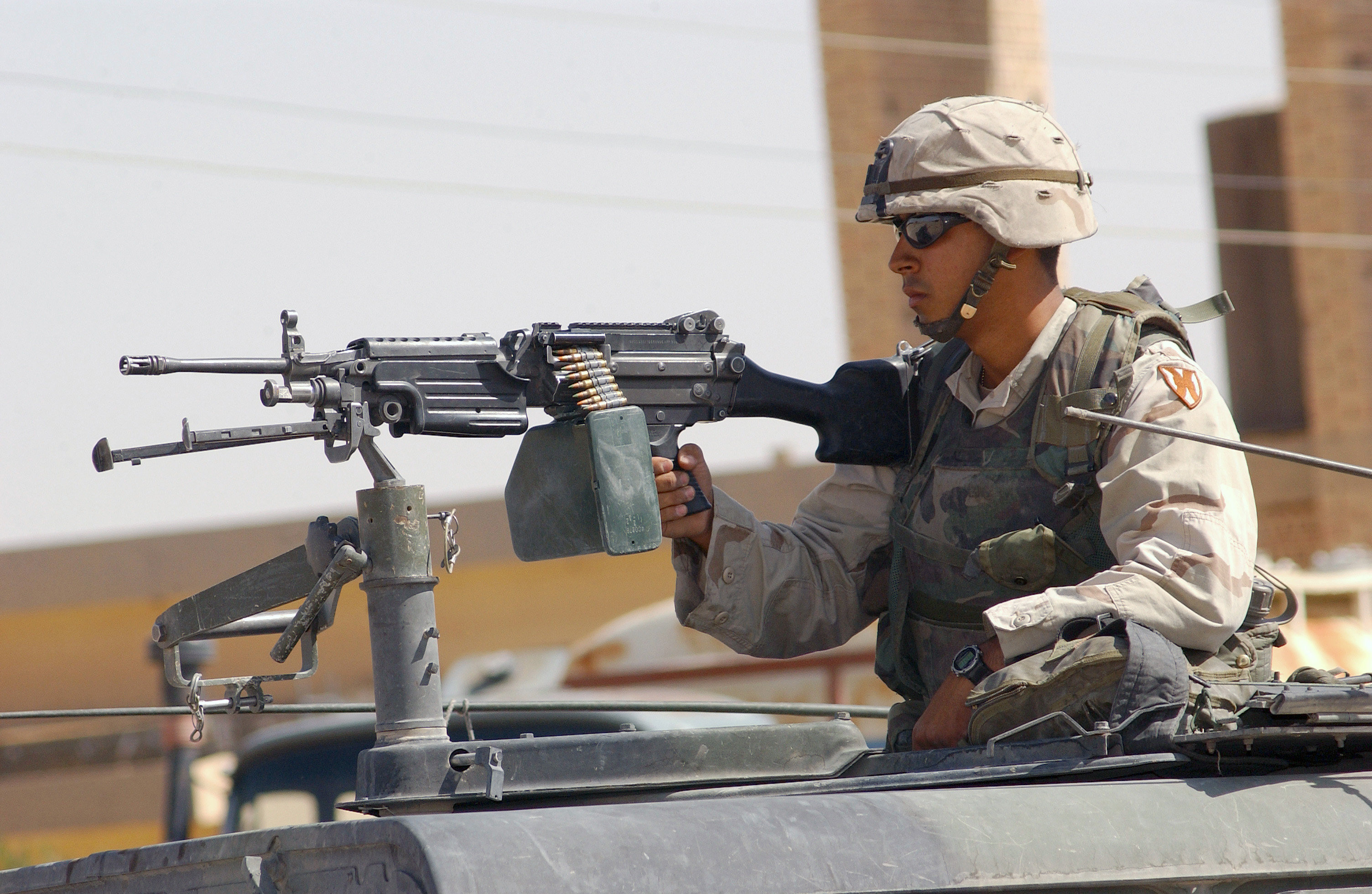 US Army (USA) Specialist Fourth Class (SPC) Heriberto Santiago, 554th Military Police (MP) Company (CO), attached to the 173rd Airborne Brigade helps provides perimeter security with an FNMI 5.56 mm M249 Squad Automatic Weapon (SAW), during a meeting between an American commander and a local sheik outside of Kirkuk, Iraq, during Operation IRAQI FREEDOM.